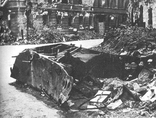 Warsaw Uprising: Remains of trap tank Borgward B IV, which exploded at Kilińskiego 3 Street, on August 13, 1944. In the explosion died over 300 people: about hundred from "Róg" Regiment, many from Battalions "Gustaw", "Wigry" and "Gozdawa", and over hundred civilians.